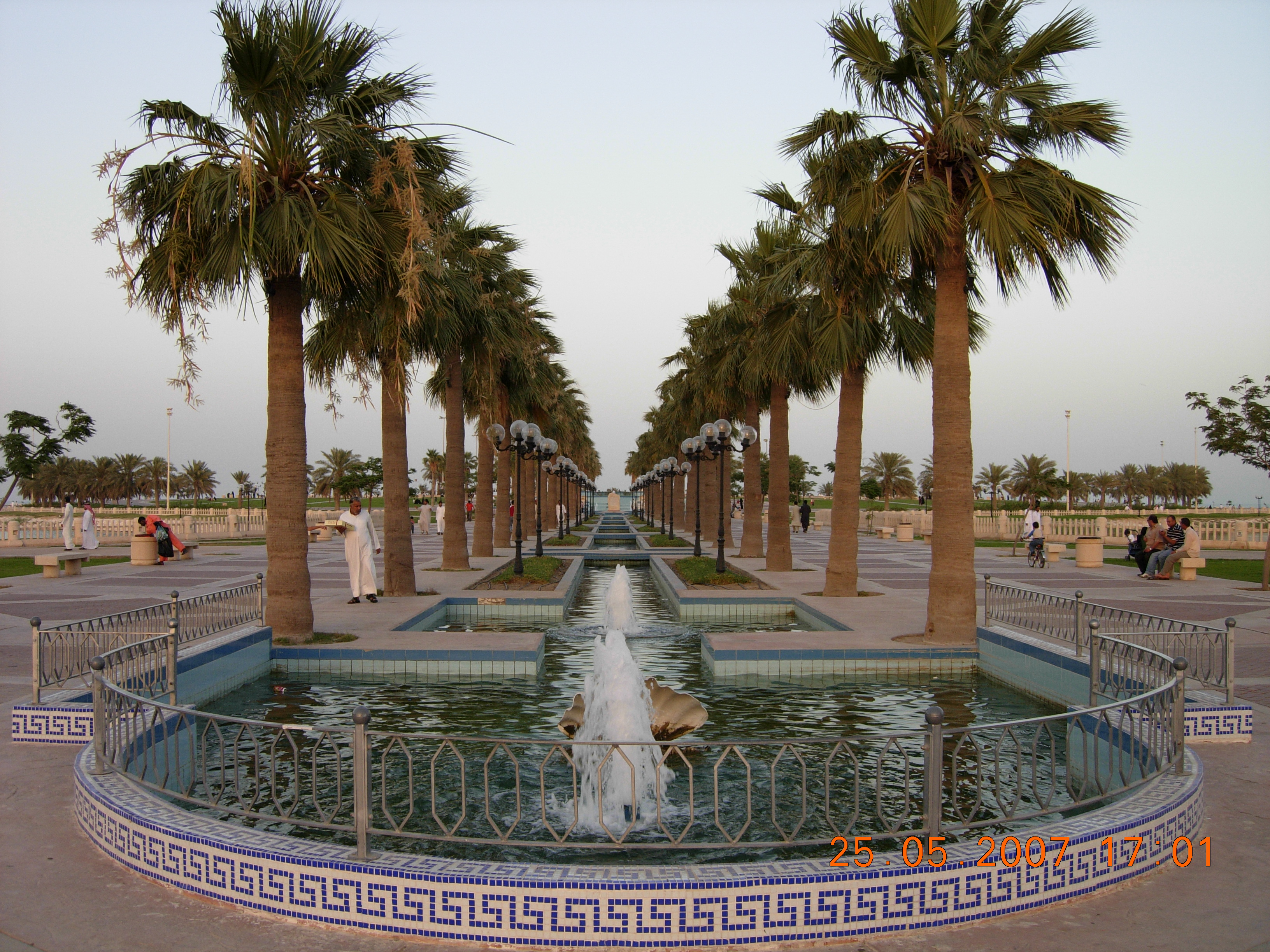 cornaish al khobar